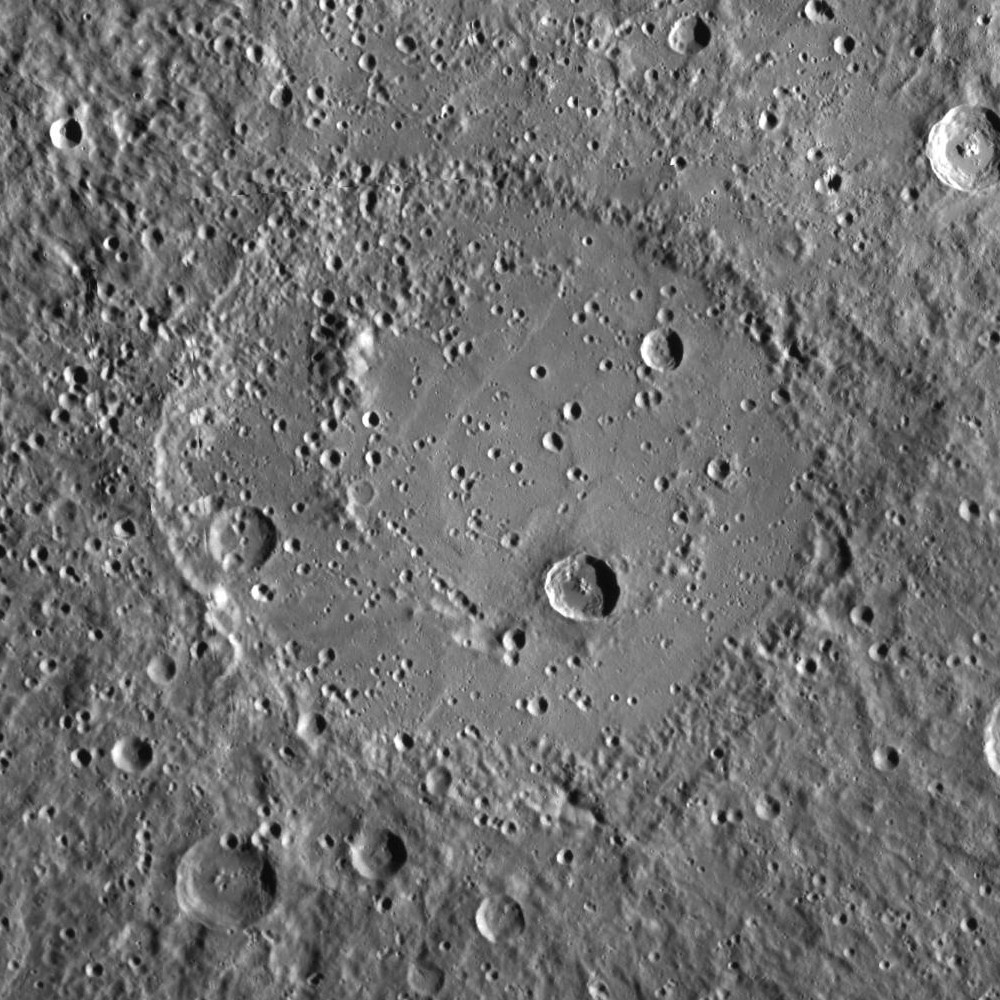 Ellington crater, on Mercury. Berkel crater is below right of center of Ellington. MESSENGER Wide Angle Camera mosaic. Image is approximately 320 km wide.